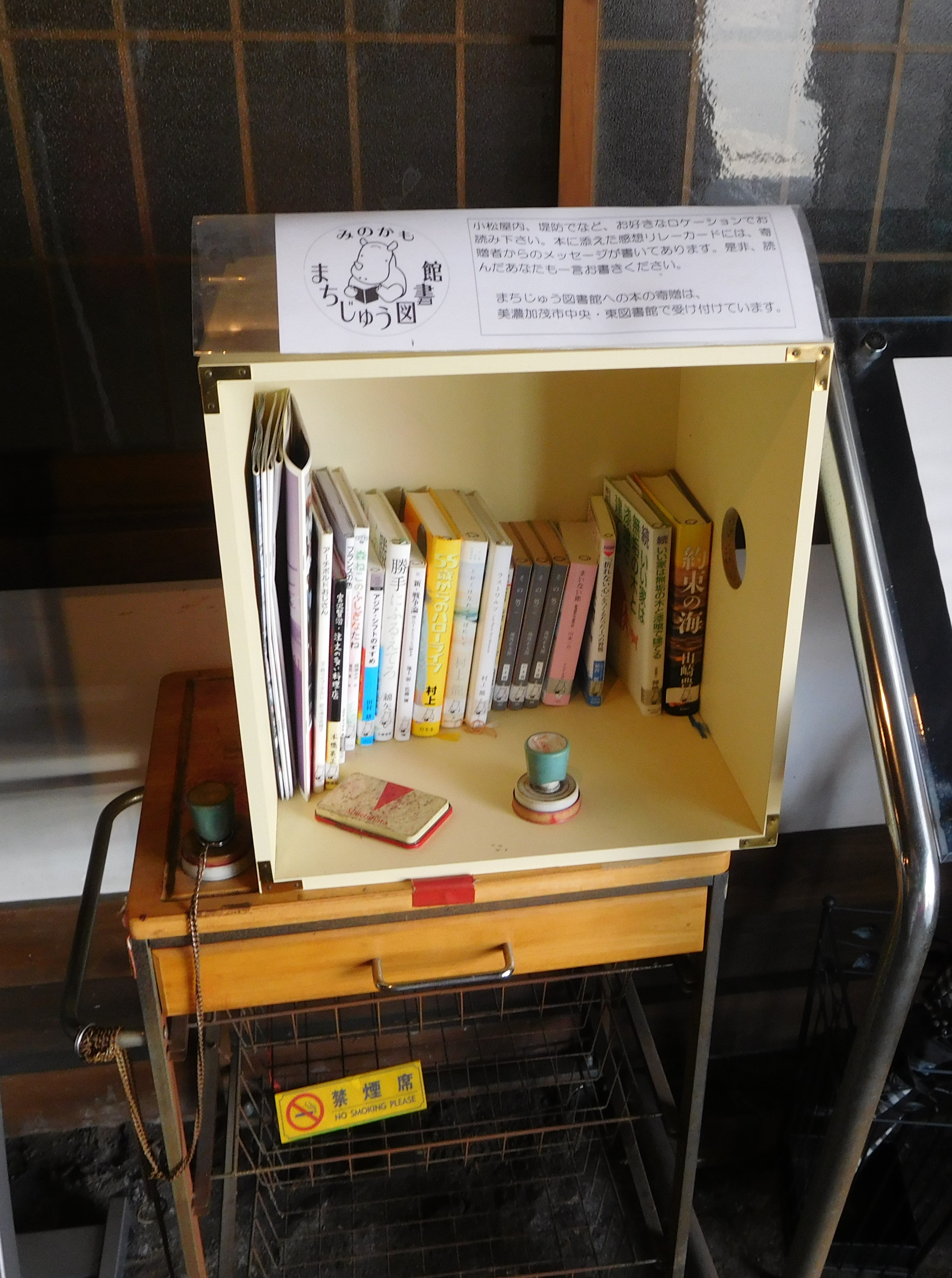 This is Minokamo Machiju Library (libraries all around the city) in the former Komatsu-ya, Minokamo, Gifu, Japan.